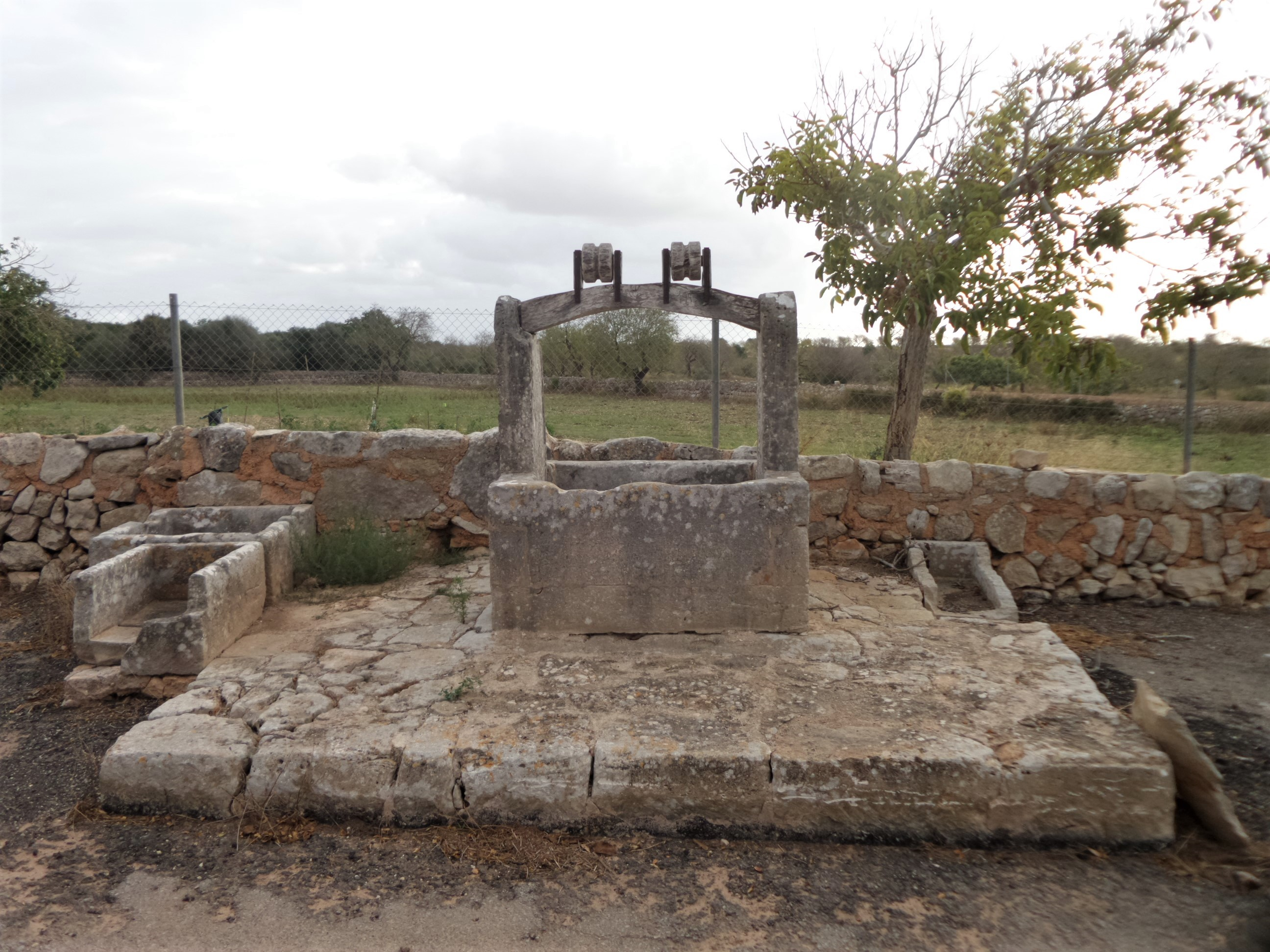 Pou Del Rei (Public Fountain)